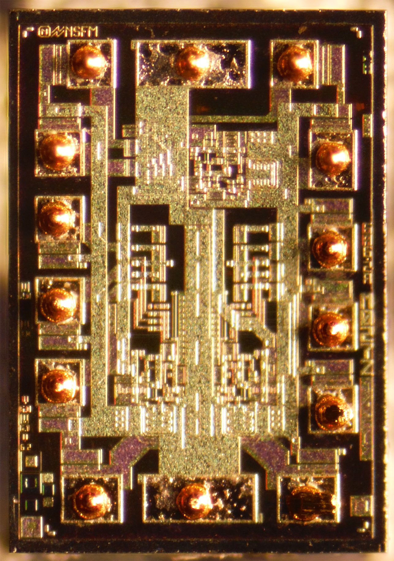 74F27 die. Triple 3-input NOR gate